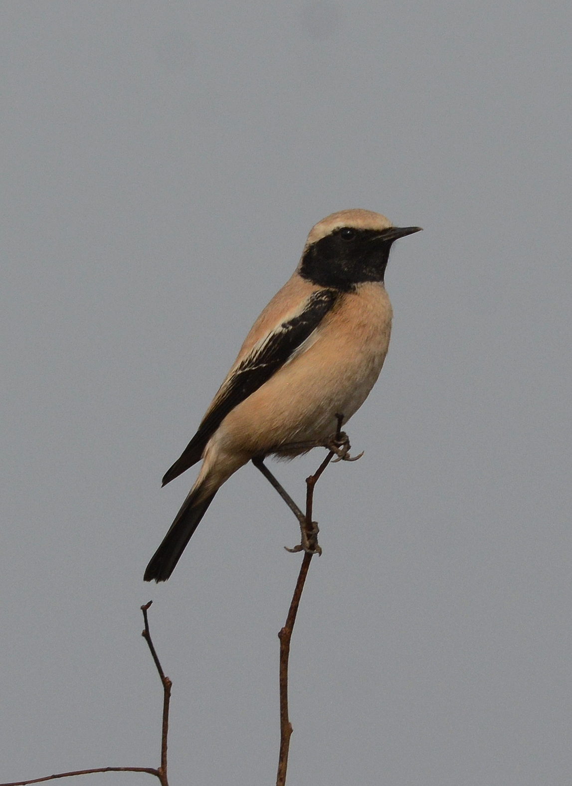 Desert Wheatear Oenanthe deserti Male Dr Raju Kasambe.